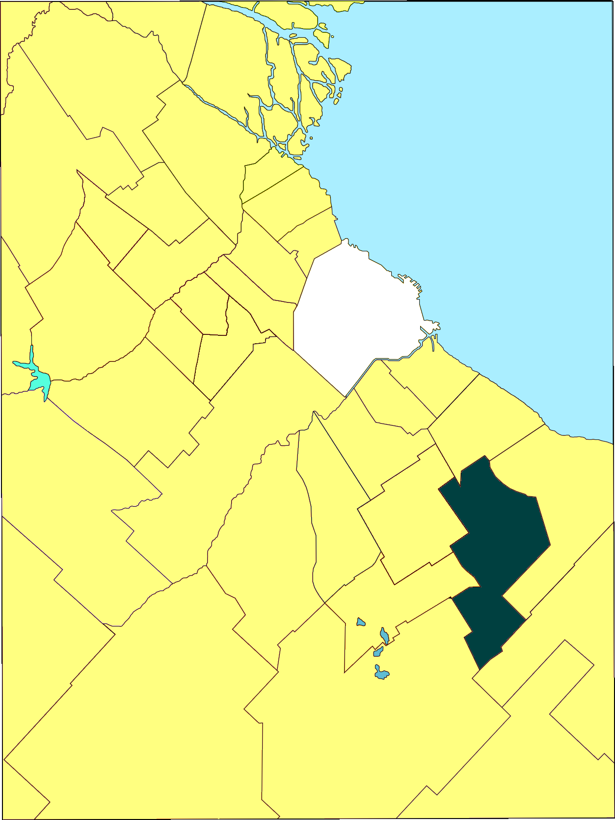 Florencio Varela county Buenos Aires, Argentina.